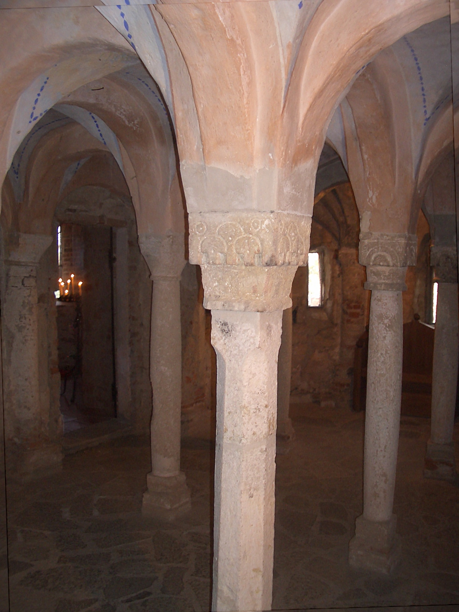 Candia Canavese, Church of Santo Stefano al Monte, the crypt, Romanesque architecture